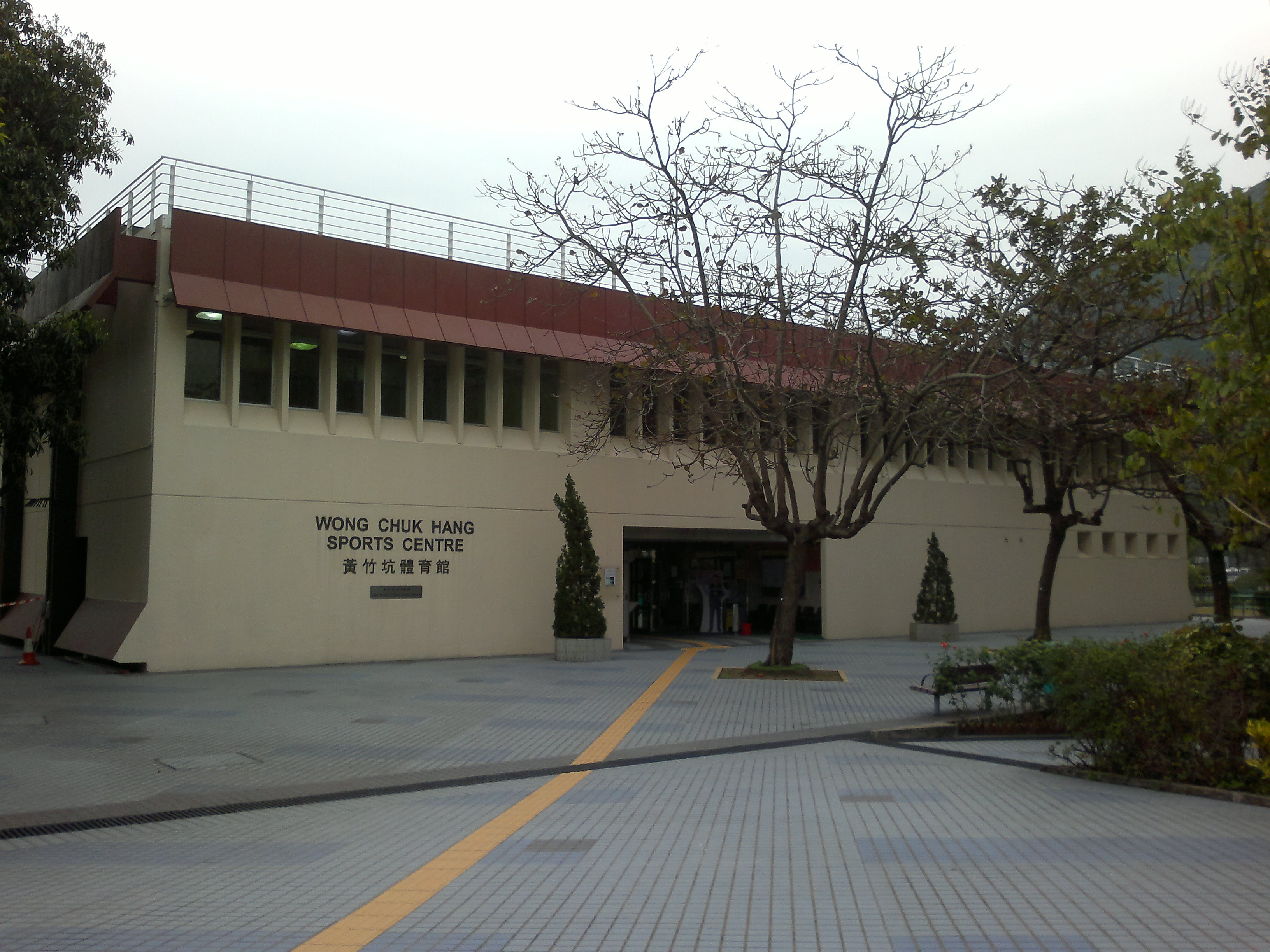 Wong Chuk Hang Sports Centre